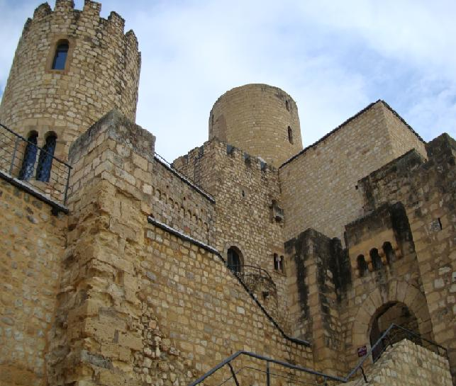 Castillo de castellet, Spain